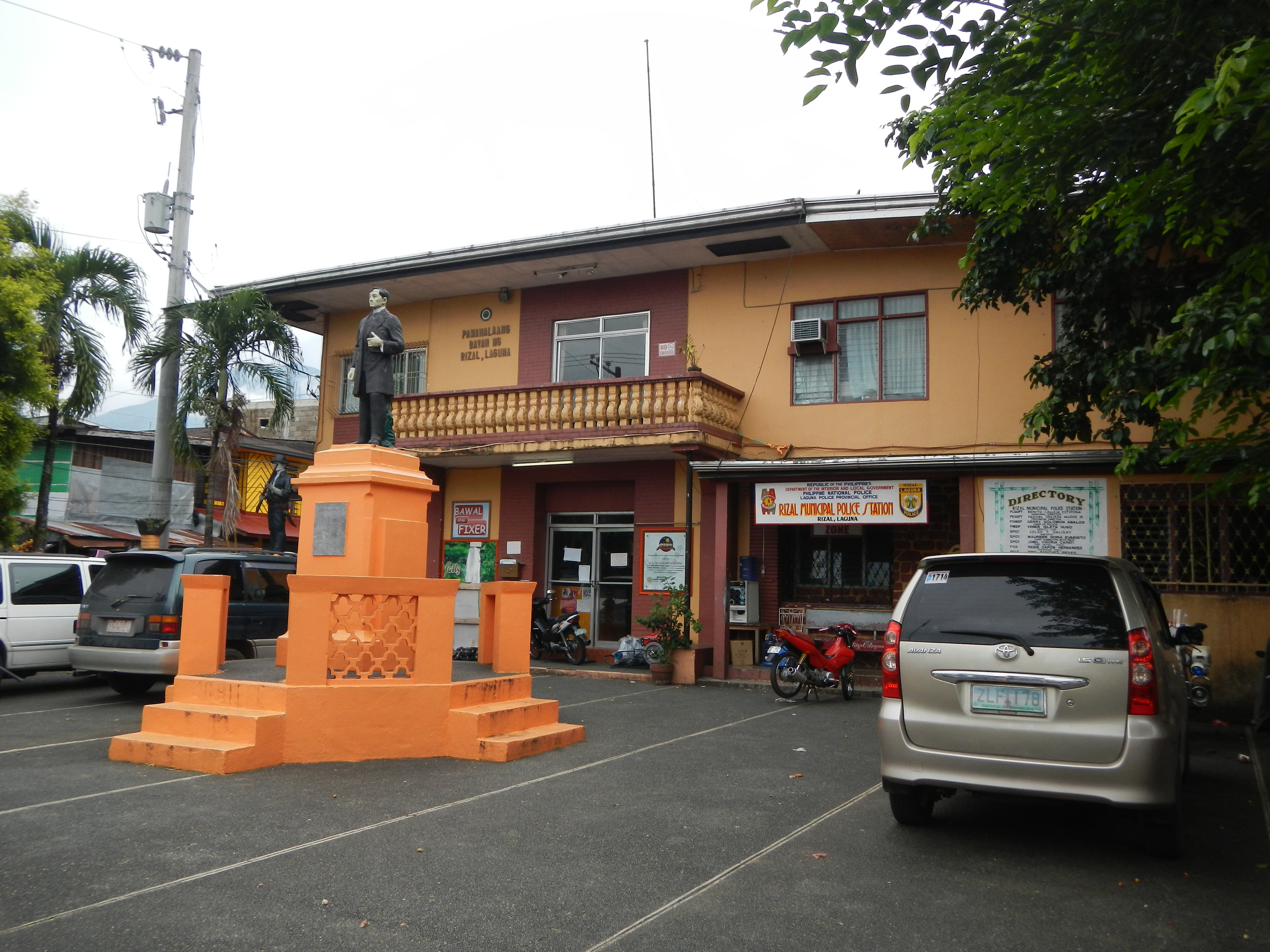 UploadWizard -- (general description - a 3 dimensional photography, angles by angles of the Town hall, plaza, landmarks, heritage Church) of Rizal, Laguna town's --- Rizal Town Hall, Town Proper, downtown, centro, National Road, Rizal Police Station, Rizal Monument, WWII, Veterans and Heroes of Rizal Memorial, Monument and Statue, St. Michael the Archangel Statue and Parish Church of Rizal -- of ---Rizal, Laguna [1] a fifth class municipality in the province of Laguna,[2] Philippines, a landlocked municipality latest census, a population of 15,518 named after José Rizal,[3] the country's national hero - [4] subdivided into 11 barangays; Coordinates: 14°5'37"N 121°24'39"E [5] [6] History Website